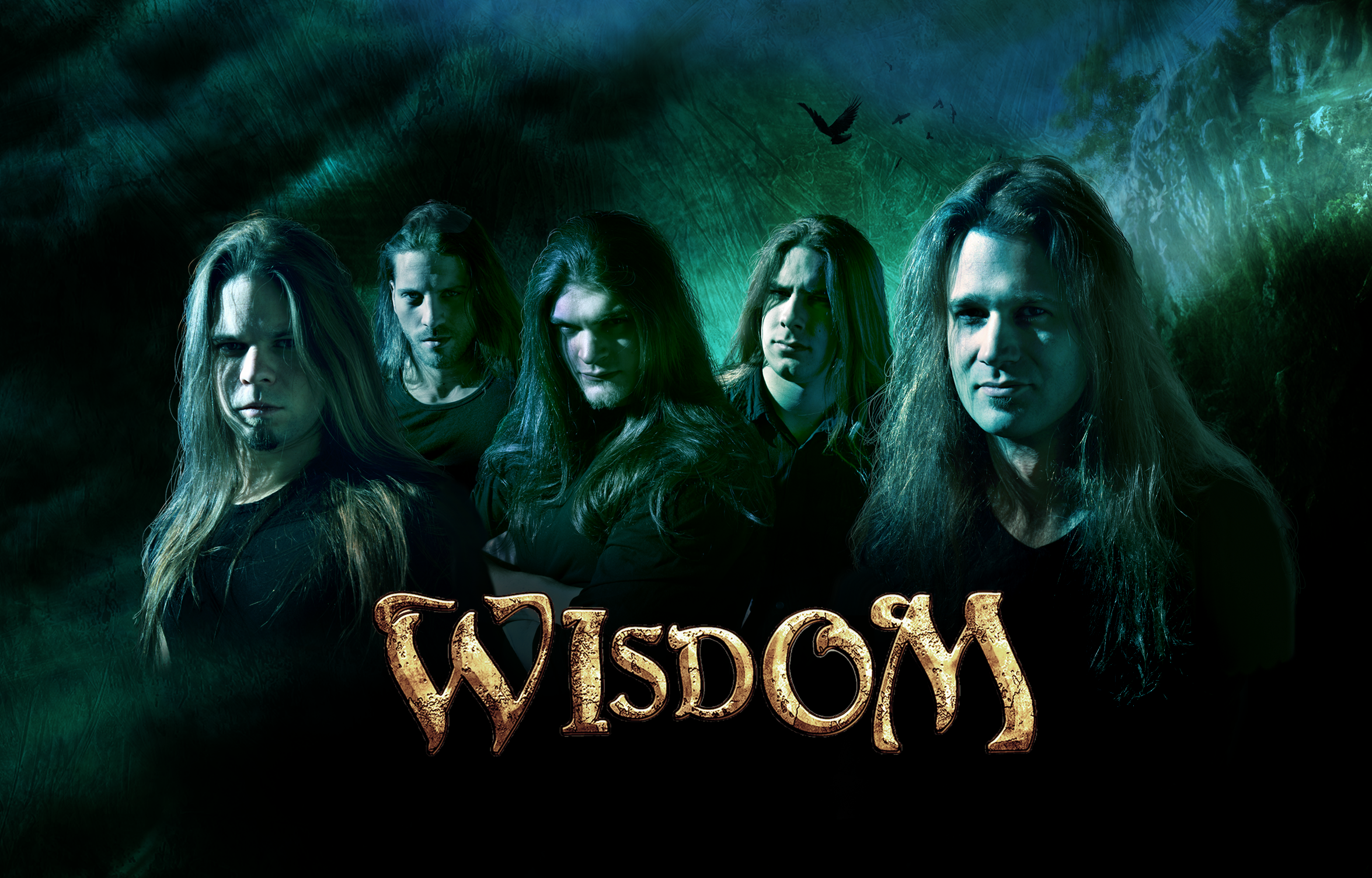 Wisdom, Hungarian heavy metal band, promo picture, Marching For Liberty, 2013